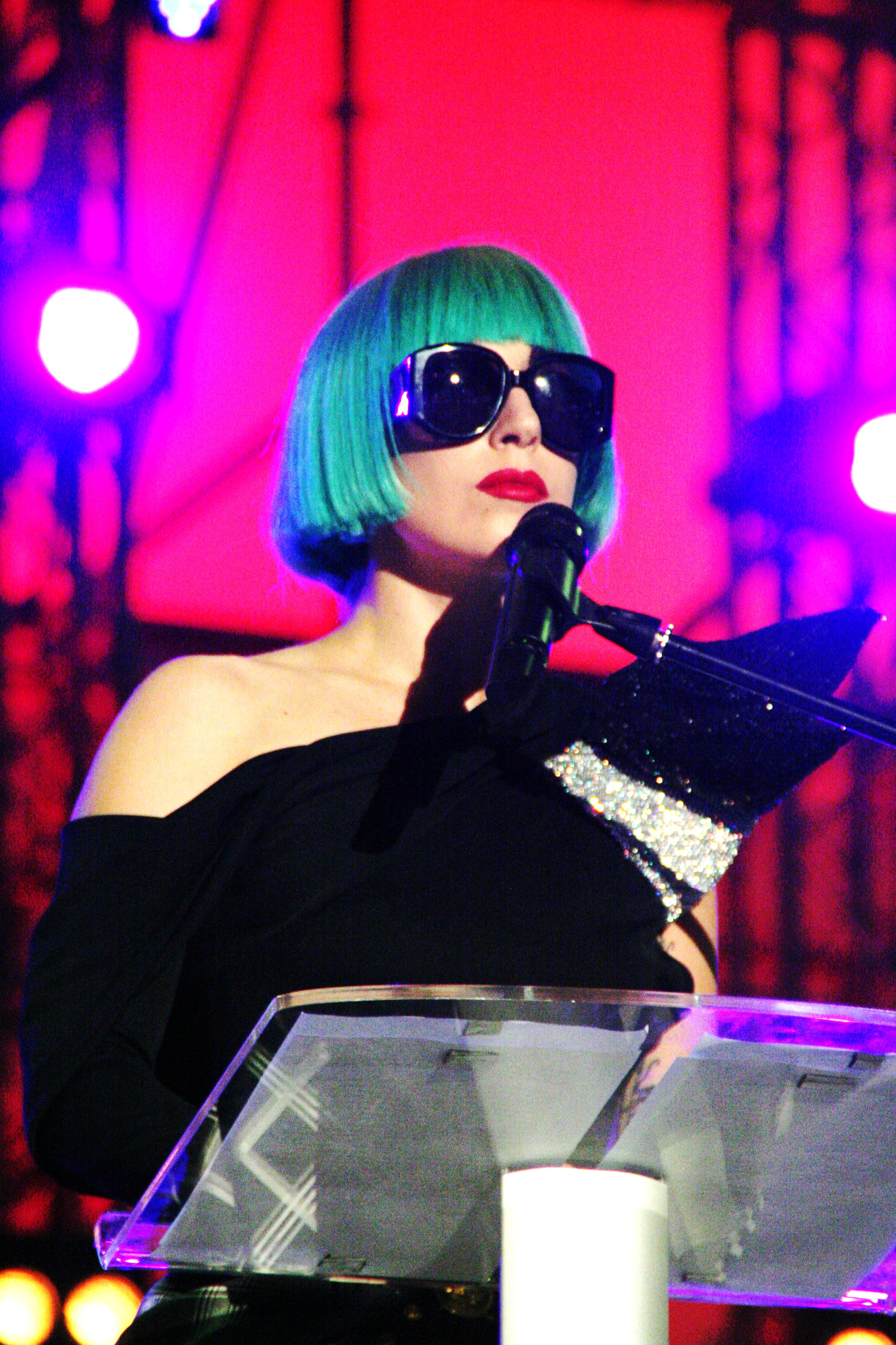 Lady Gaga giving a speech at EuroPride 2011, in Rome, italy.